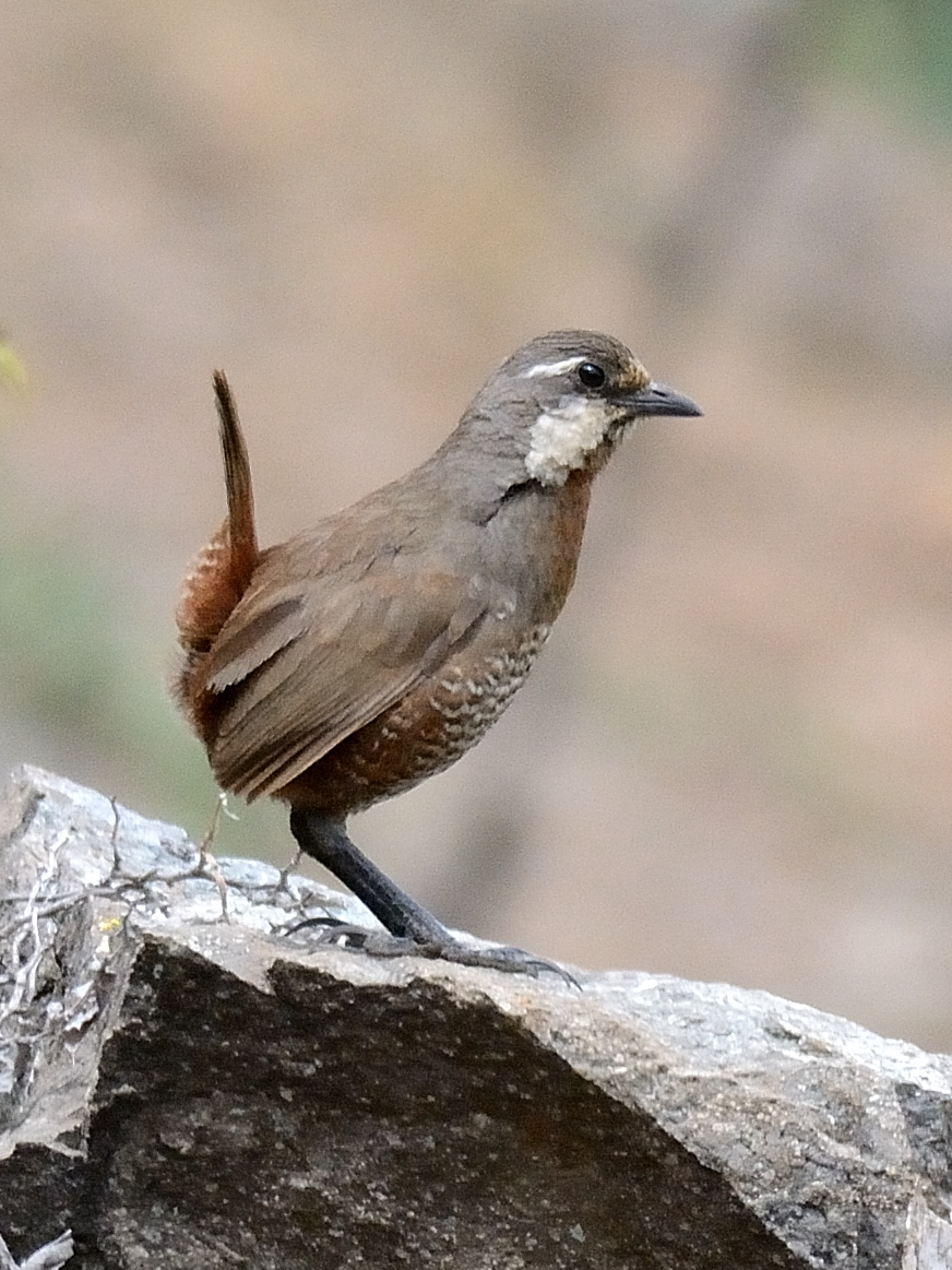 Turca near Santiago de Chile